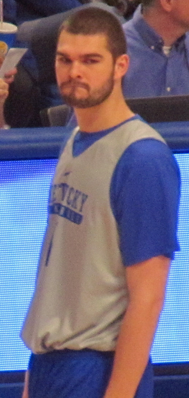 Humphries in Kentucky's 2016 Blue-White scrimmage